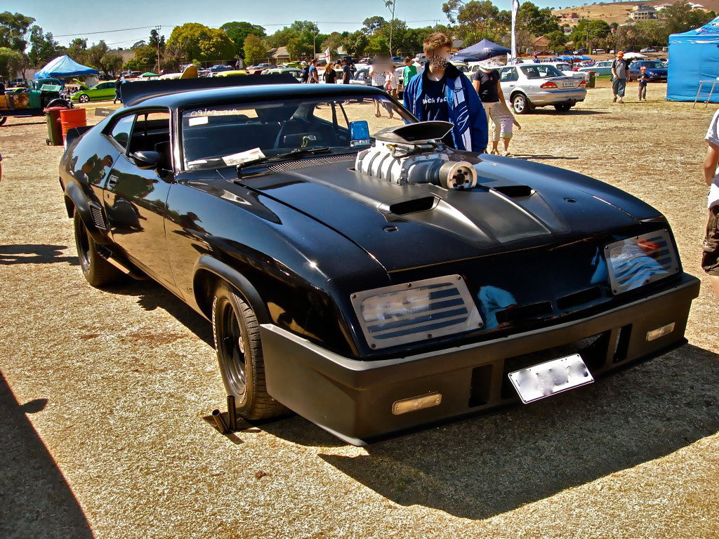 Replica edition of Mad Max's Pursuit Special Interceptor, a Ford XB Falcon Hardtop. This is made to Mad Max 1 spec so has no 44 gallon fuel tanks blocking the rear view.